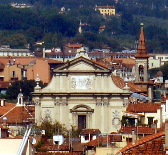 The Basilica of San Marco in Florence, Italy